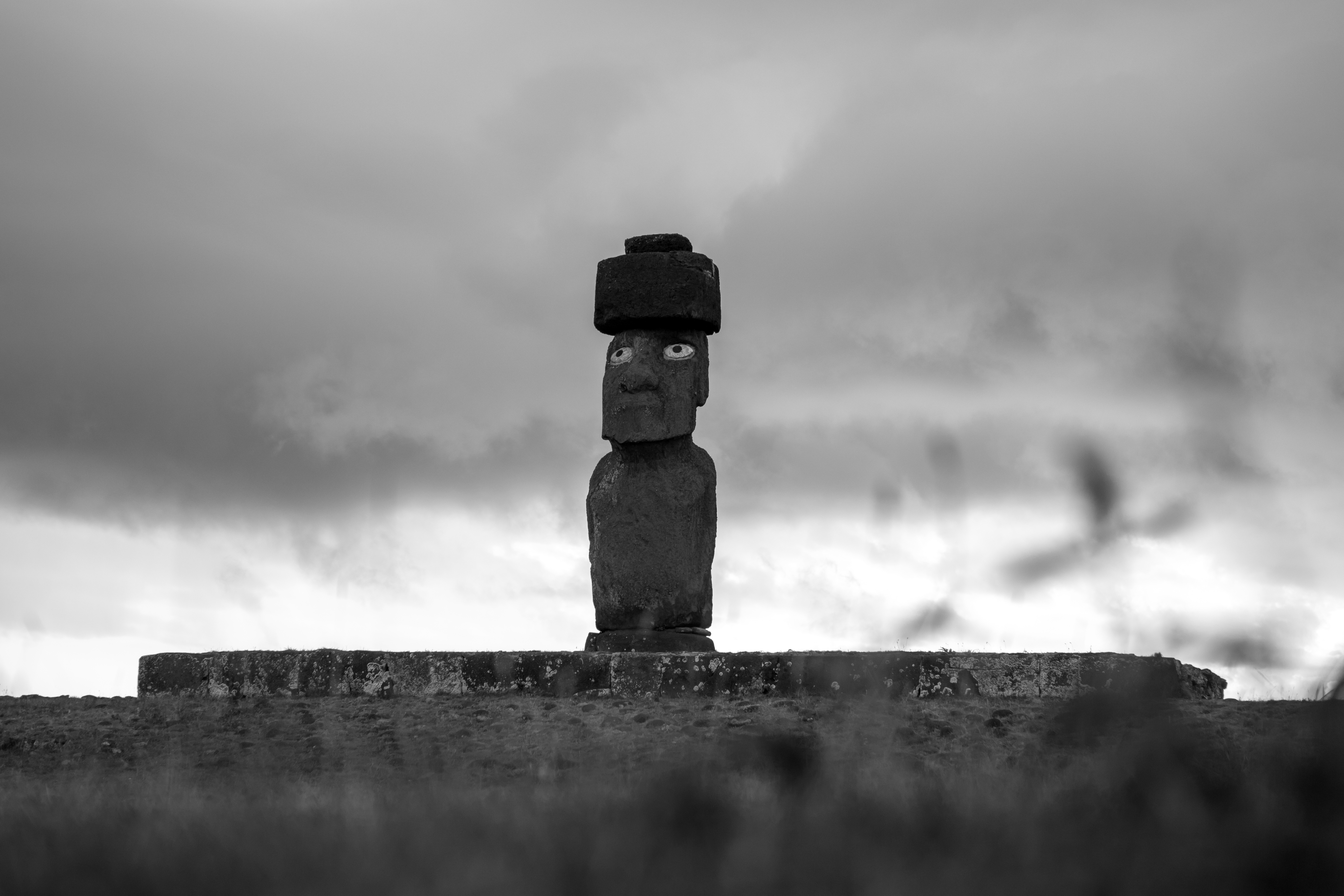 Only moai that has eyes of the whole island. It is thought that when a moai was installed in his ahu, the eye sockets were carved and, in a ritual ceremony, his eyes were made of white coral and obsidian pupils. At that time it was considered that the statue came alive and could project the mana or spiritual power to protect their tribe. Therefore, all the moai look towards the interior of the island, as in Tahai, which is where the villages and their inhabitants were, and not to the ocean.